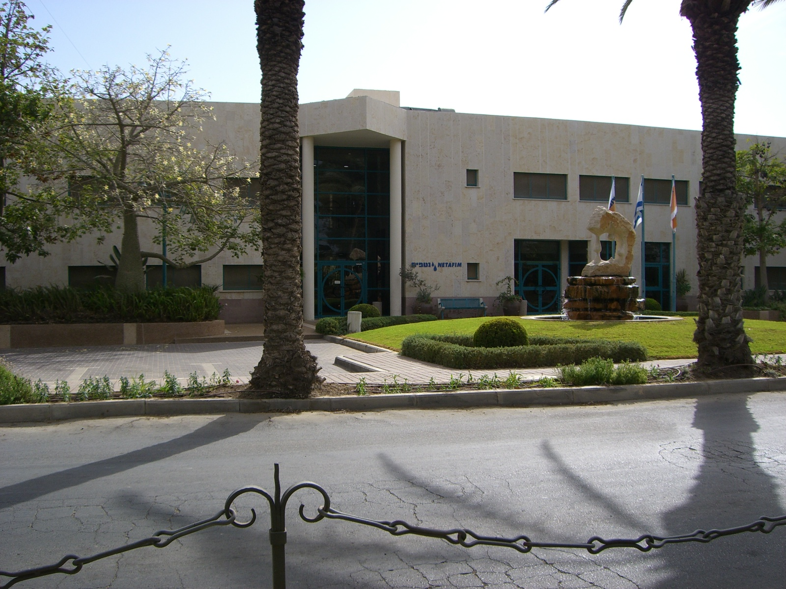 This is the Netafim's Offices at kibbutz Hatzerim.